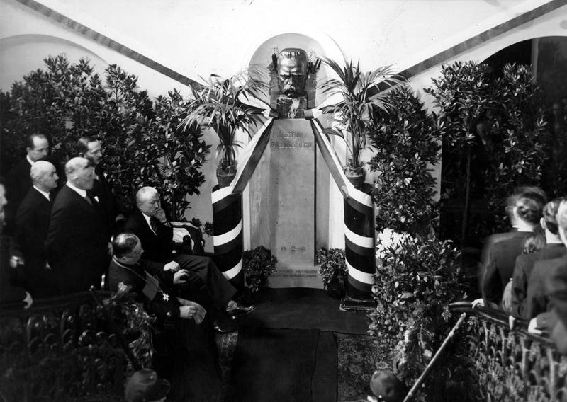 The ceremony of unveiling Piłsudski's bust. Polish Ministry of Industry and Trade.